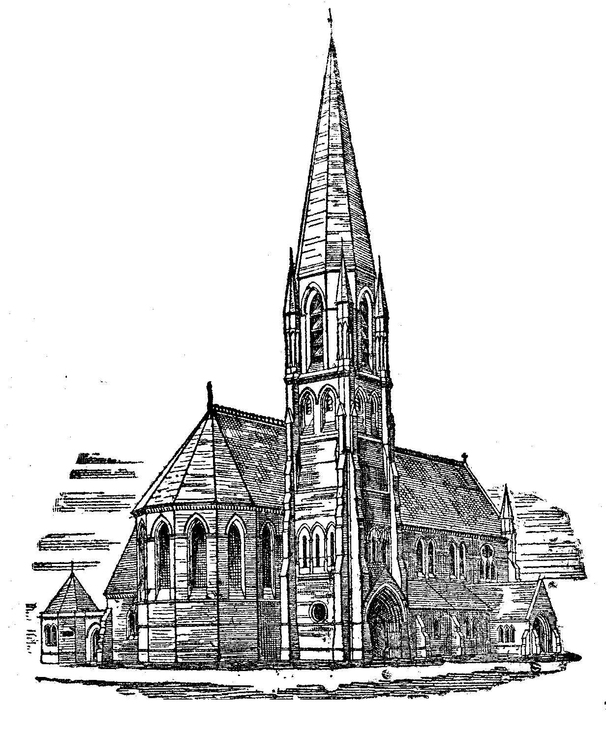 Original artist's impression of St Ambrose's parish church, Halton View Road, Widnes, Lancashire (now Cheshire), with northeast tower and spire that were never built